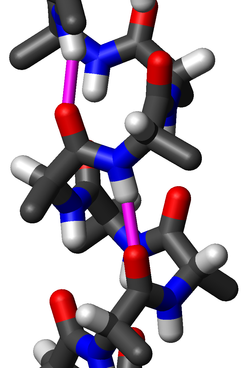 Close-up sideview of a "stick" model of an alpha helix of poly-alanine using the dihedral angles φ=-60° and ψ=-45° and the Engh&Huber bond geometry. Two hydrogen bonds are highlighted in magenta; the O-H distance is 2.08 Å (208 pm). The PDB file was made by me on 18 October 2006 using my own software and visualized by me using MOLMOL. I release this image under the GFDL.